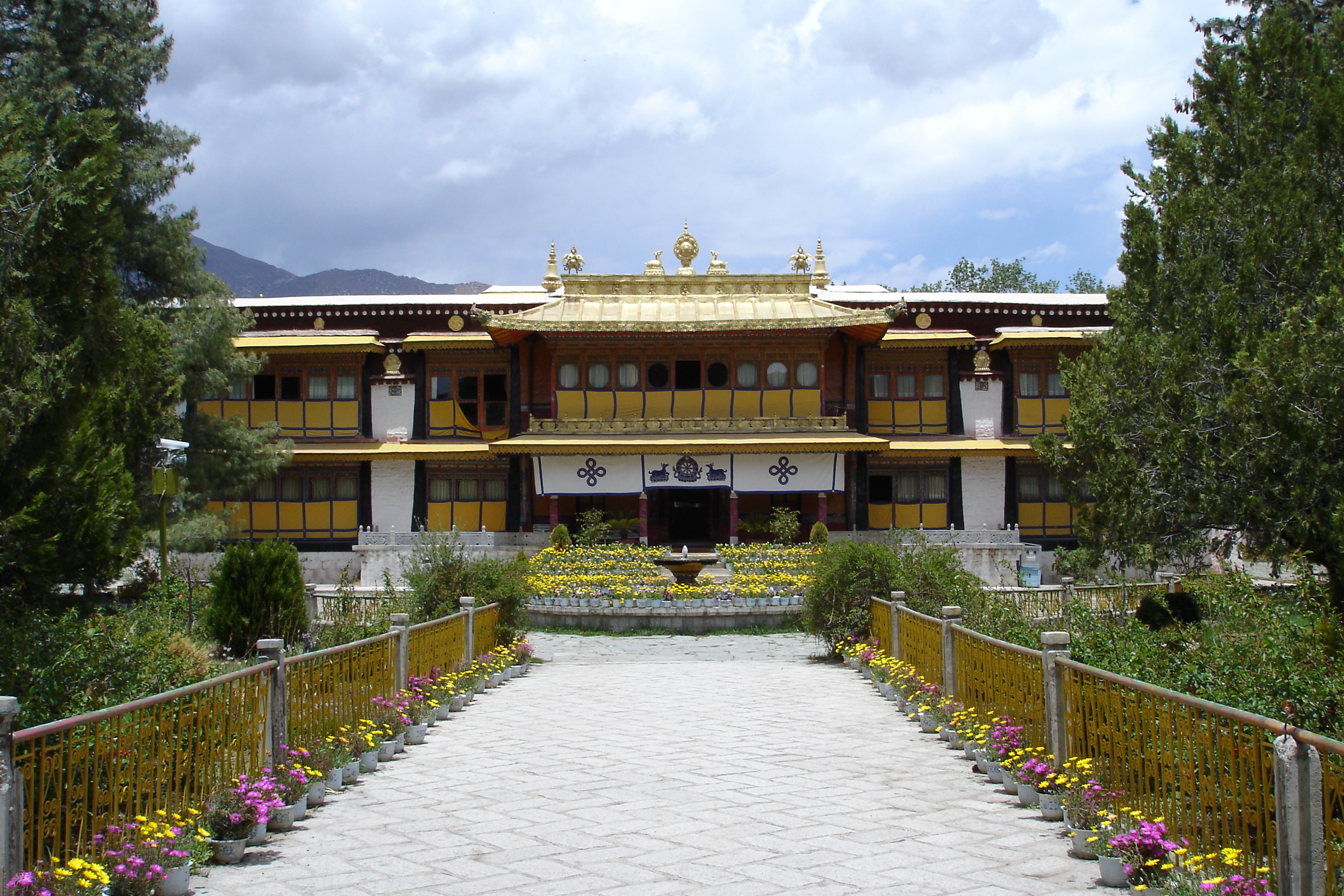 The New Summer Palace of Norbulingka (Tibet Autonomous Region, People's Republic of China).